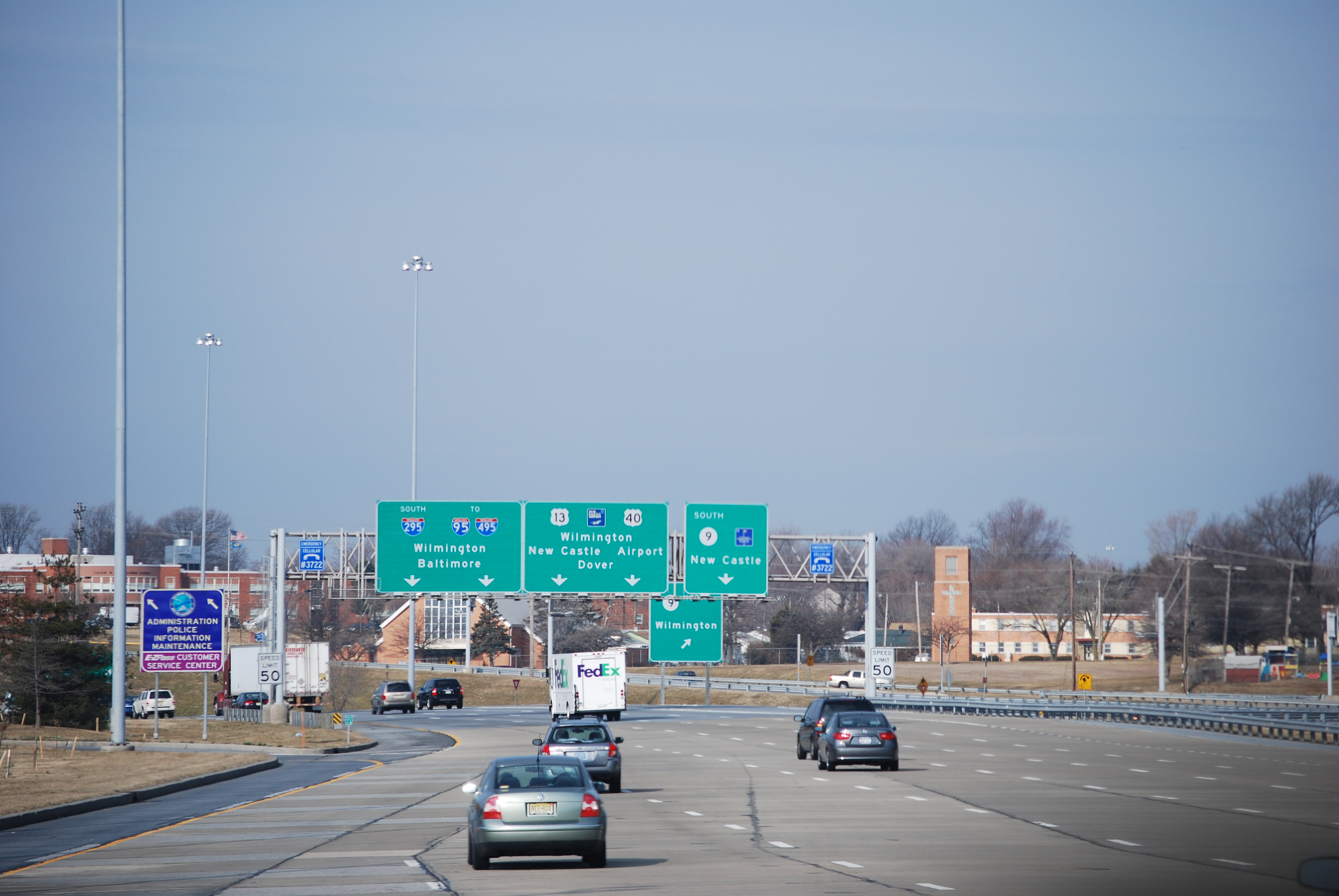 Interstate 295 and U.S. Route 40 concurrency in New Castle, Delaware, just after the Delaware Memorial Bridge.